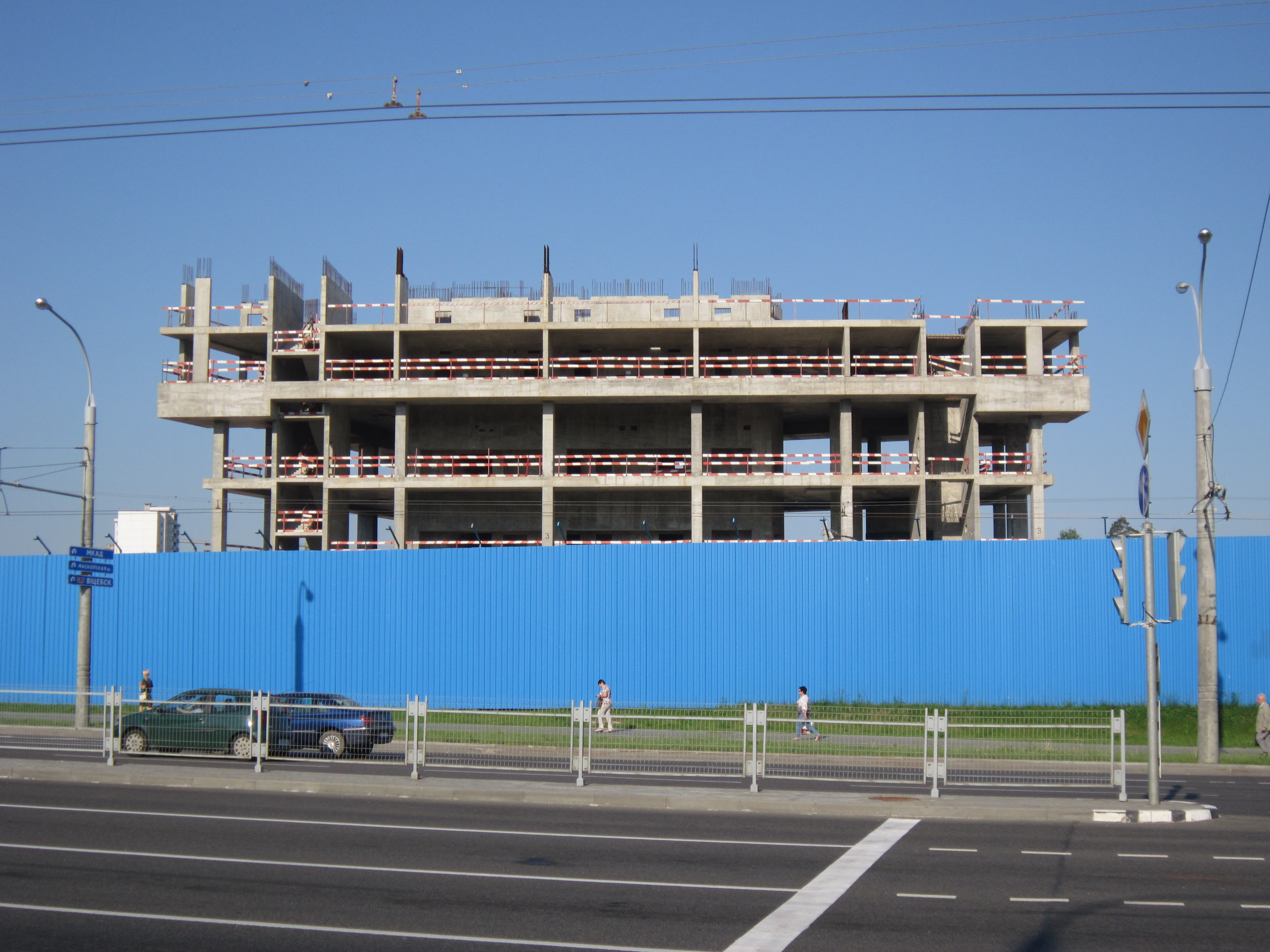 Delayed construction of Gazprom tower in Minsk, Belarus (started in 2014, abandoned in 2016).